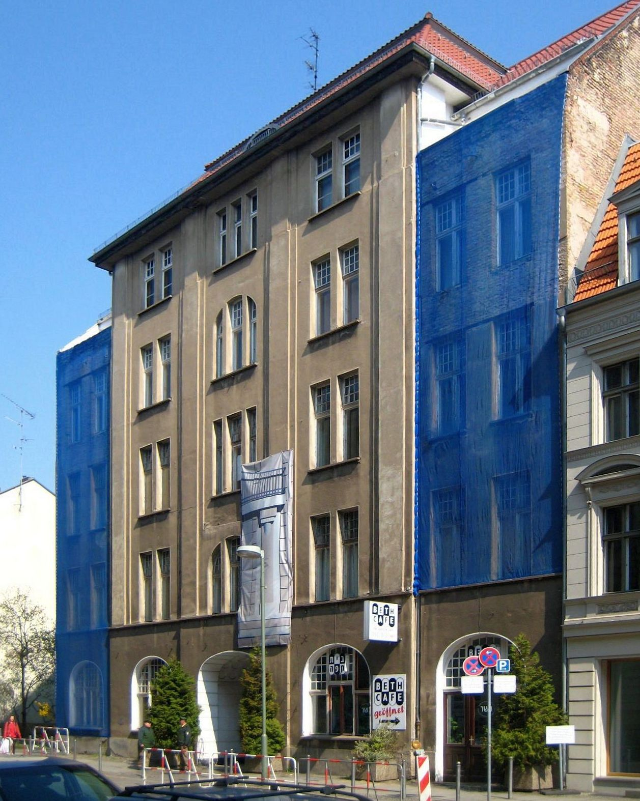 Community center of the Israelitic Synagogue Community (Adass Jisroel) at Tucholskystraße No. 40 in Berlin-Mitte. It was built from 1903 to 1904 to a design by the architects Johann Höniger und Jakob Sedelmeier. The adjacent synagogue was damaged in WWII and demolished in 1967. The building has been designated as a historic landmark.